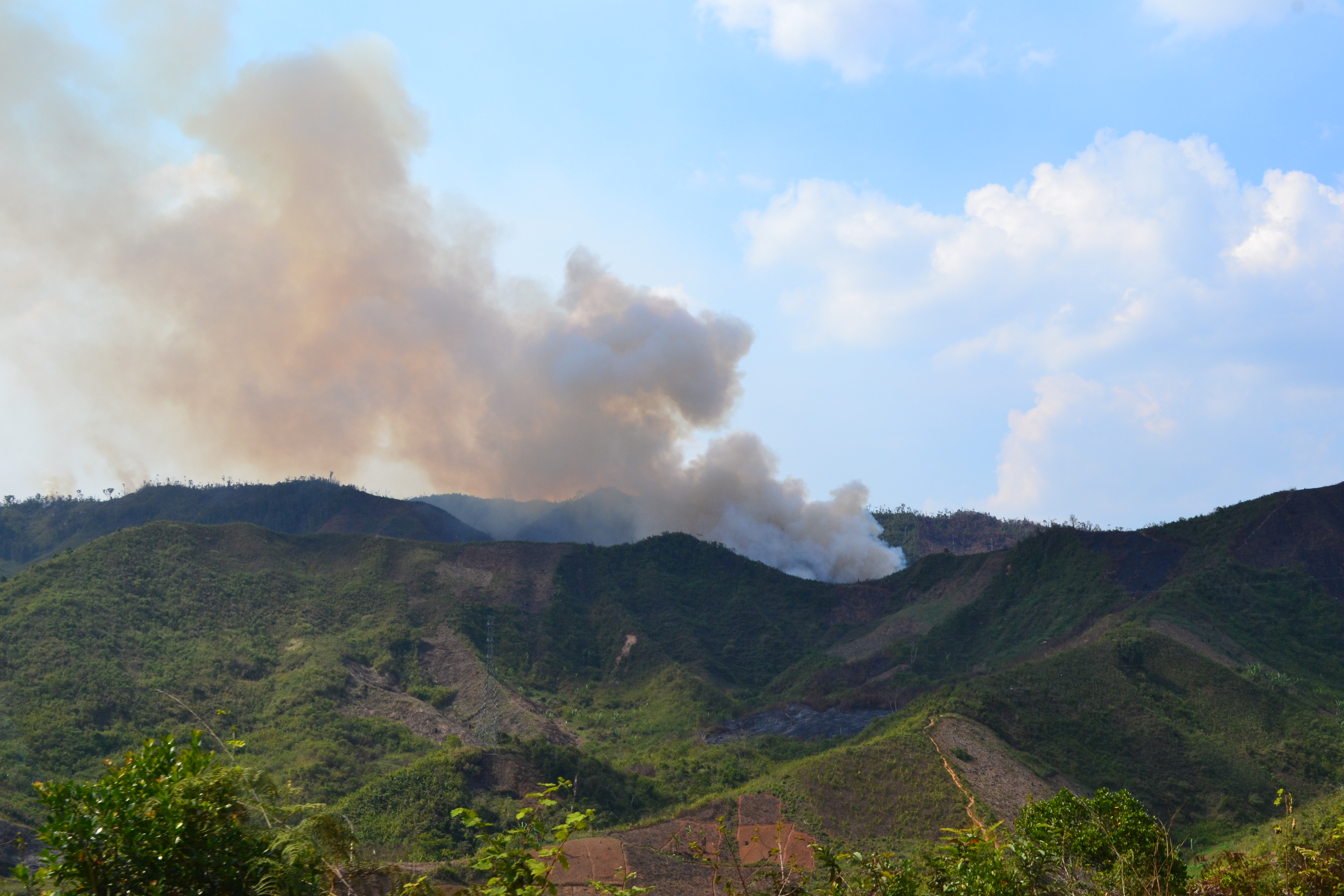 Slash and Burn (Tavy) farming techniques being practiced near Vohimana Experimental Reserve, Madagascar.